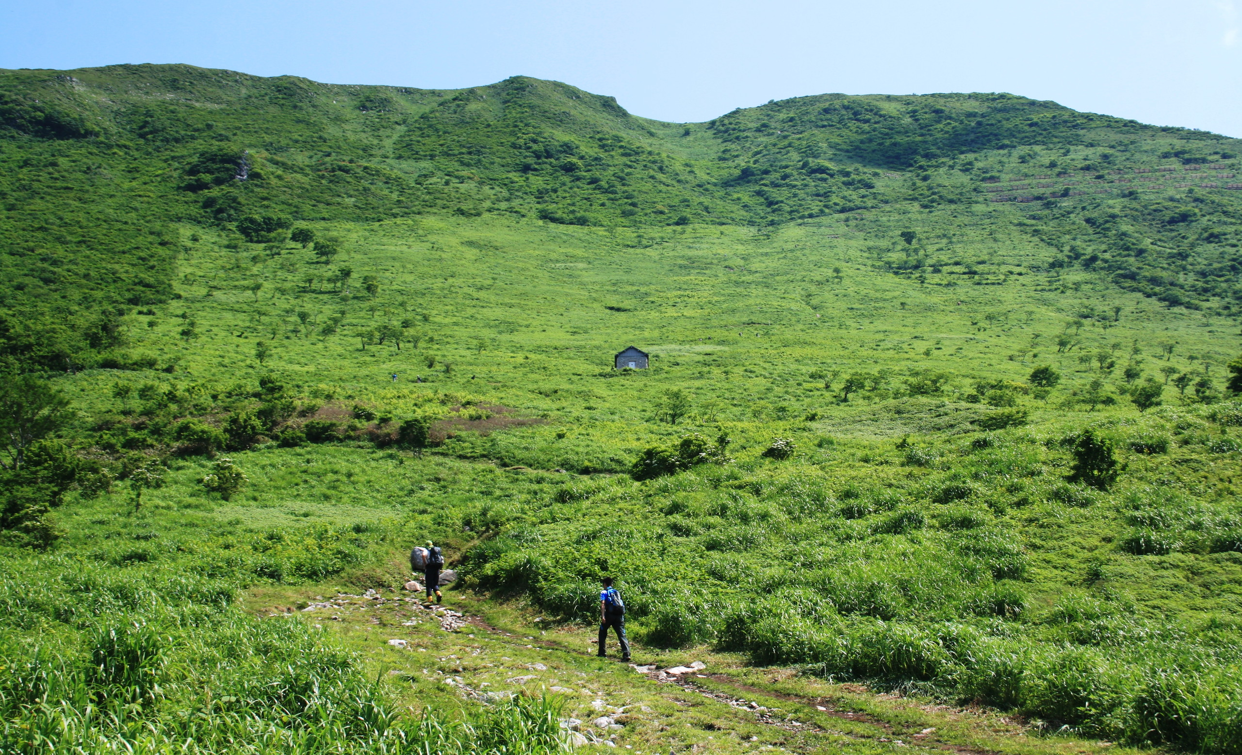 Trail of Mount Ibuki